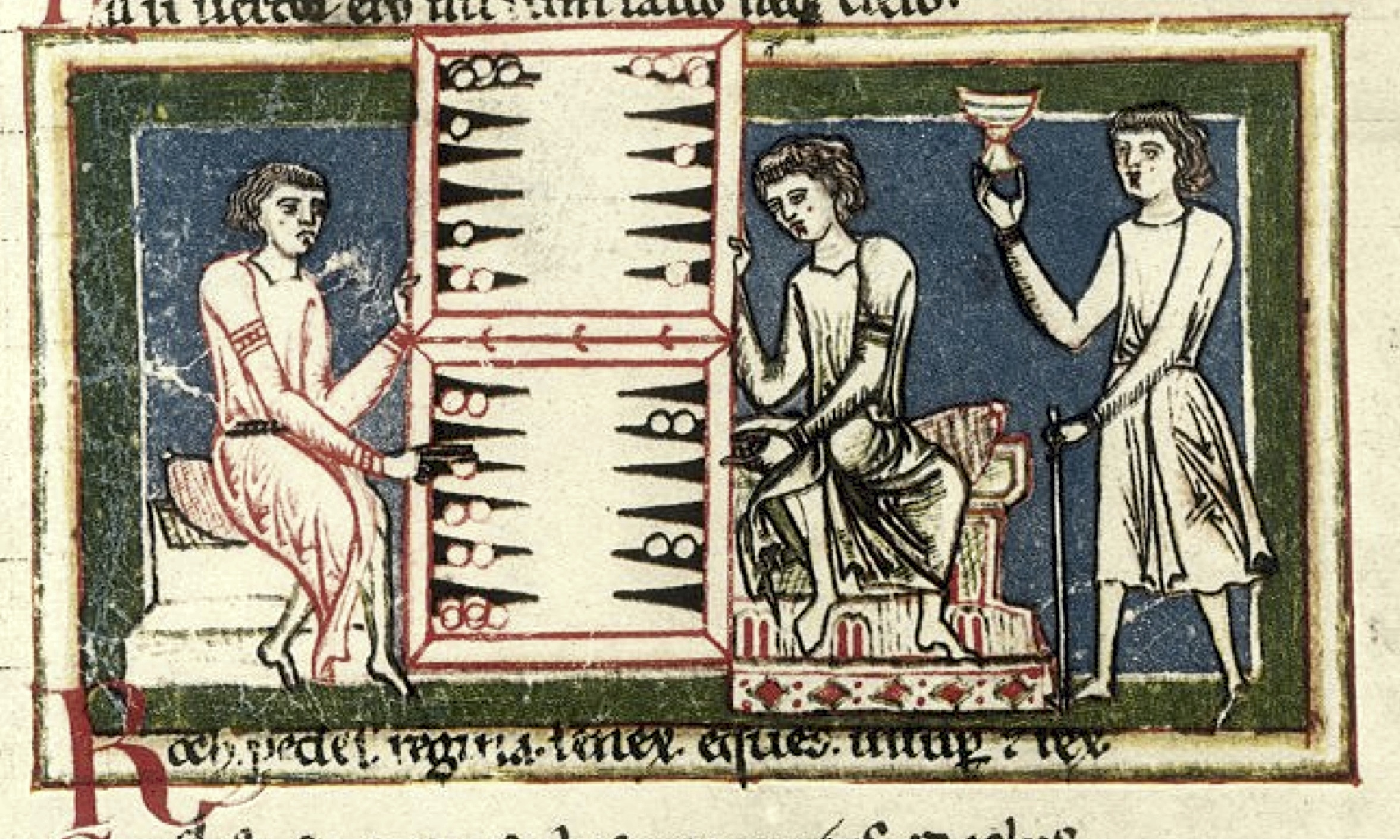 Wurfzabel, Tabula game (Wurfzabelspieler (13. Jh., Codex Buranus) From Codex Buranus (Carmina Burana)